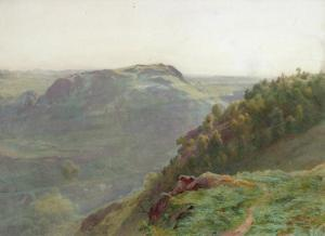 Mary Forster 1853–1885 (became Lofthouse) - Valley Scene 19th century - signed 1878